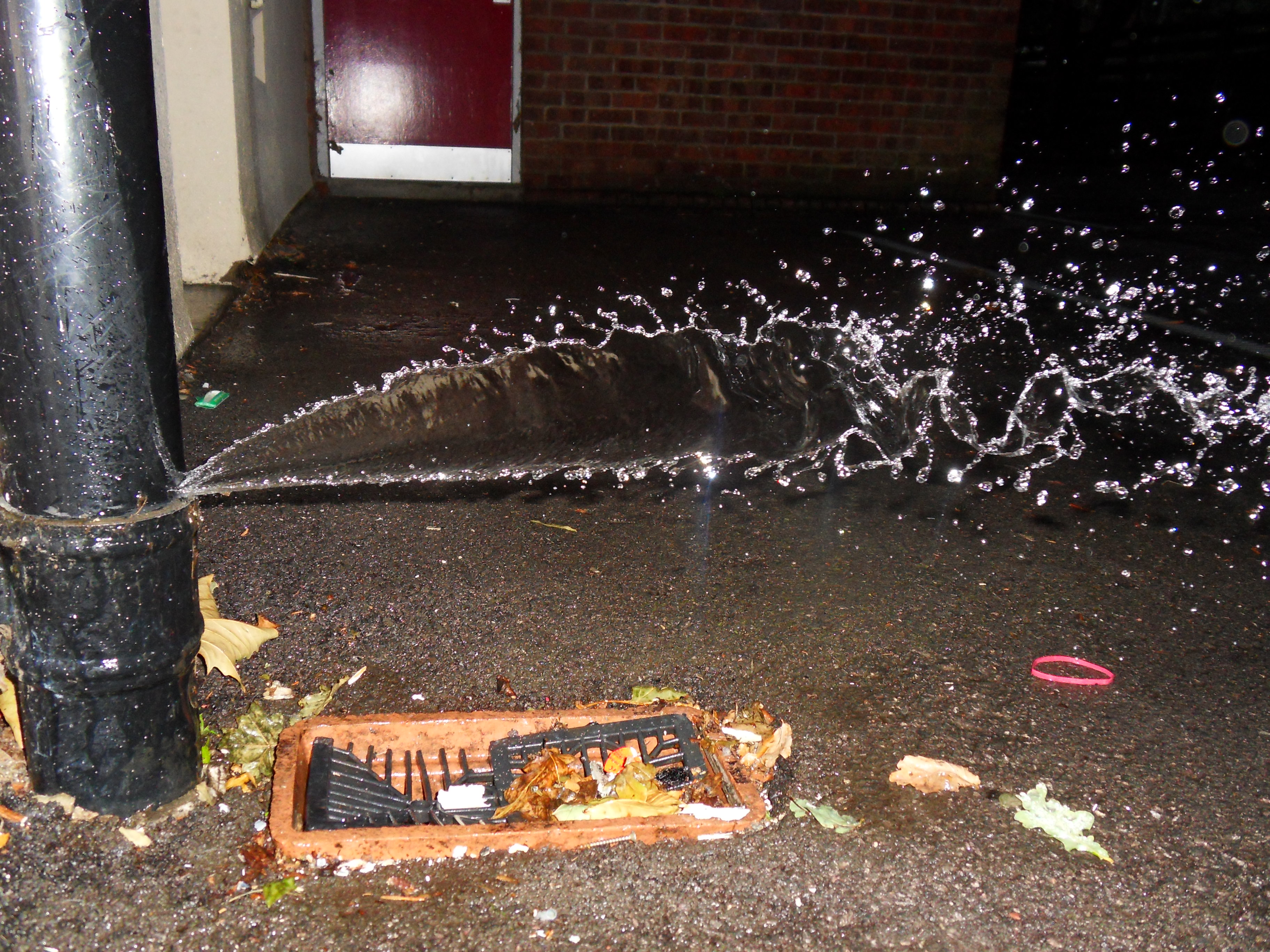 They keep tellin' me the drain aint blocked!